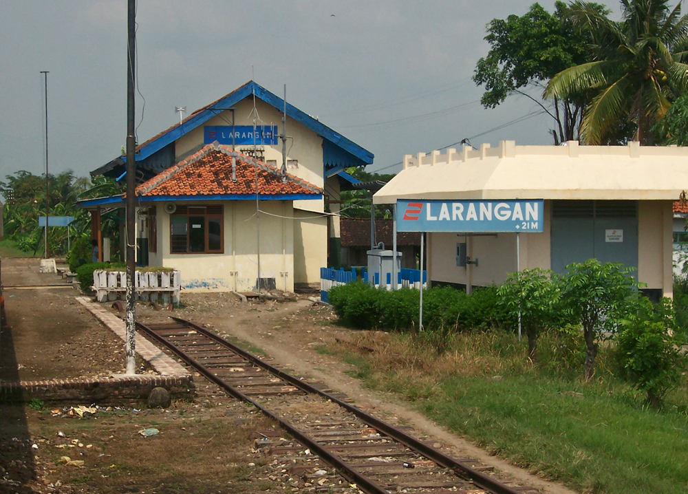 Kretek train station, Brebes, Central Java